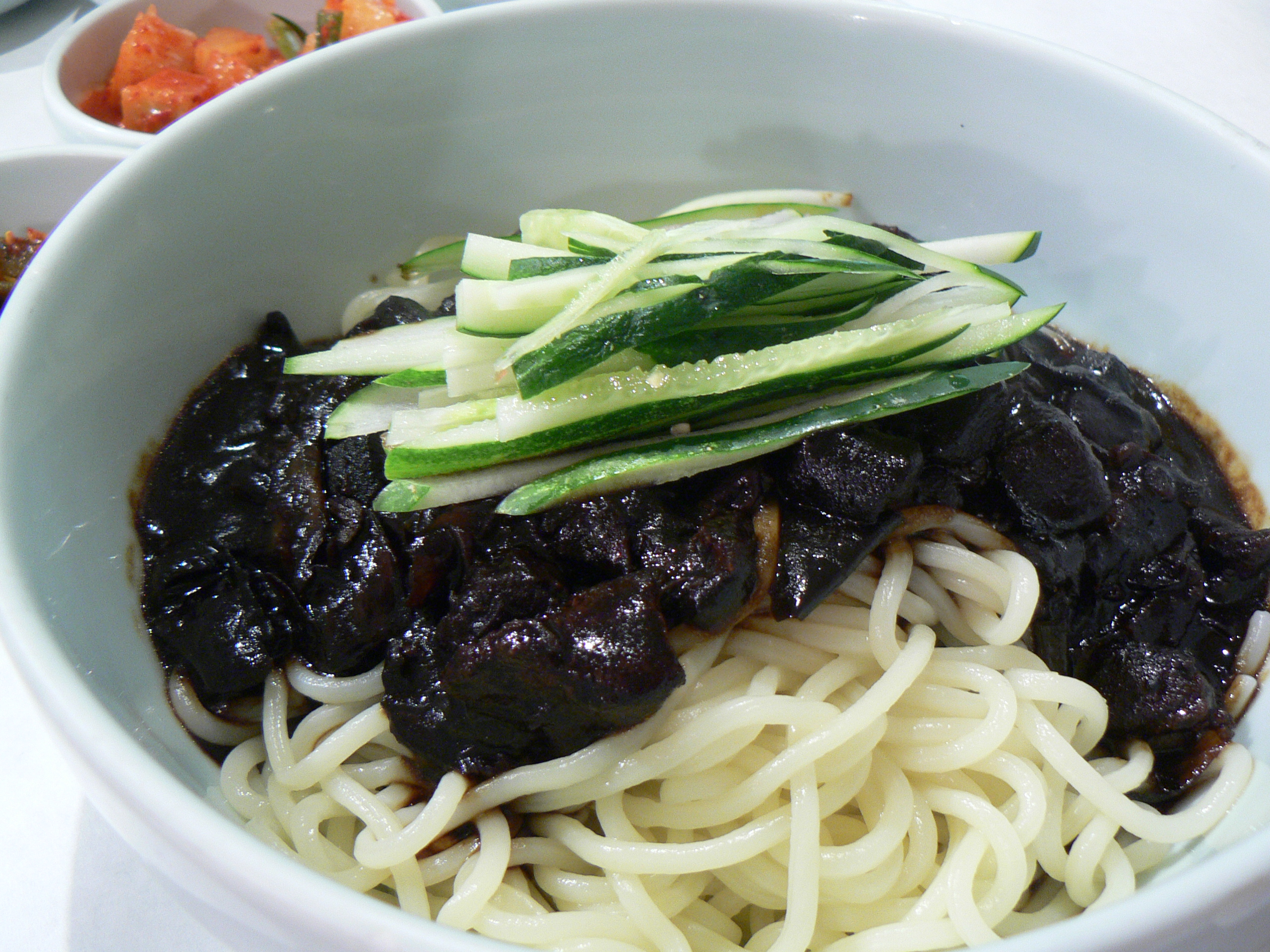 Delicous as always. It had been far too long since my last visit.